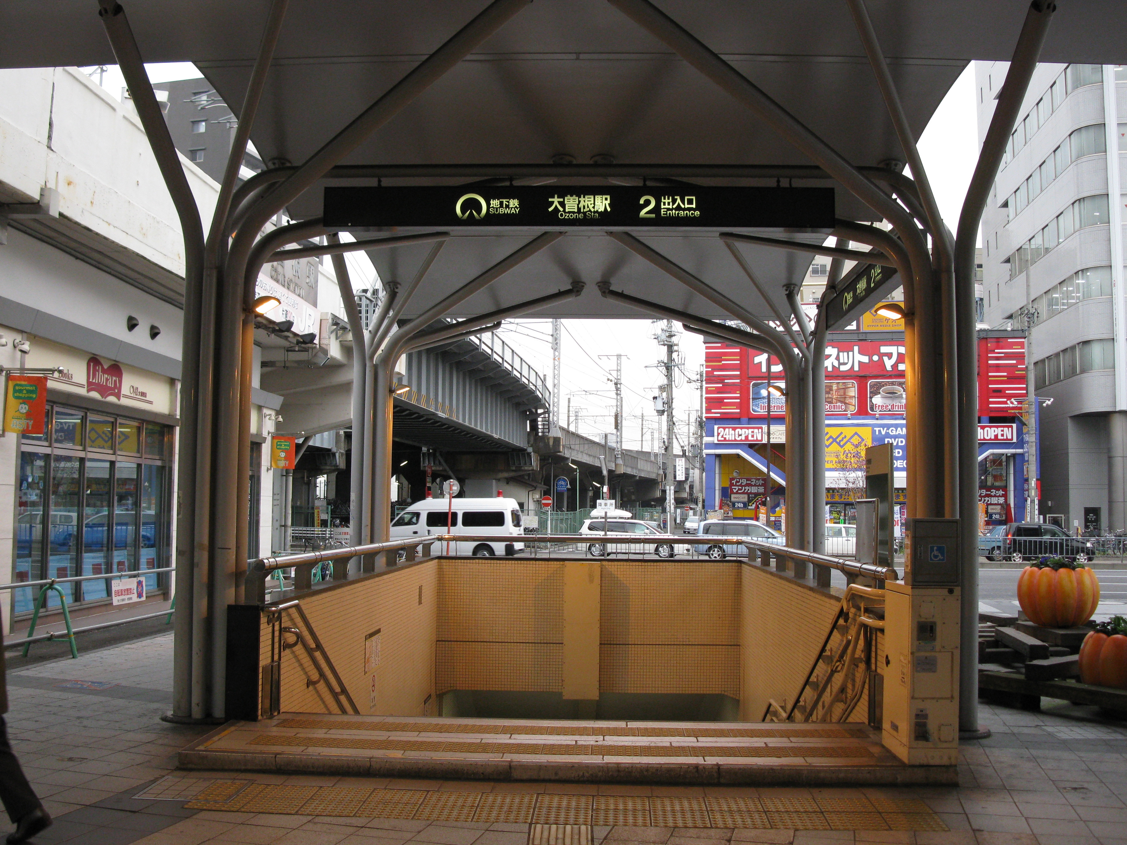 Ōzone Station no.2 entrance (Nagoya Municipal Subway Meijō Line)